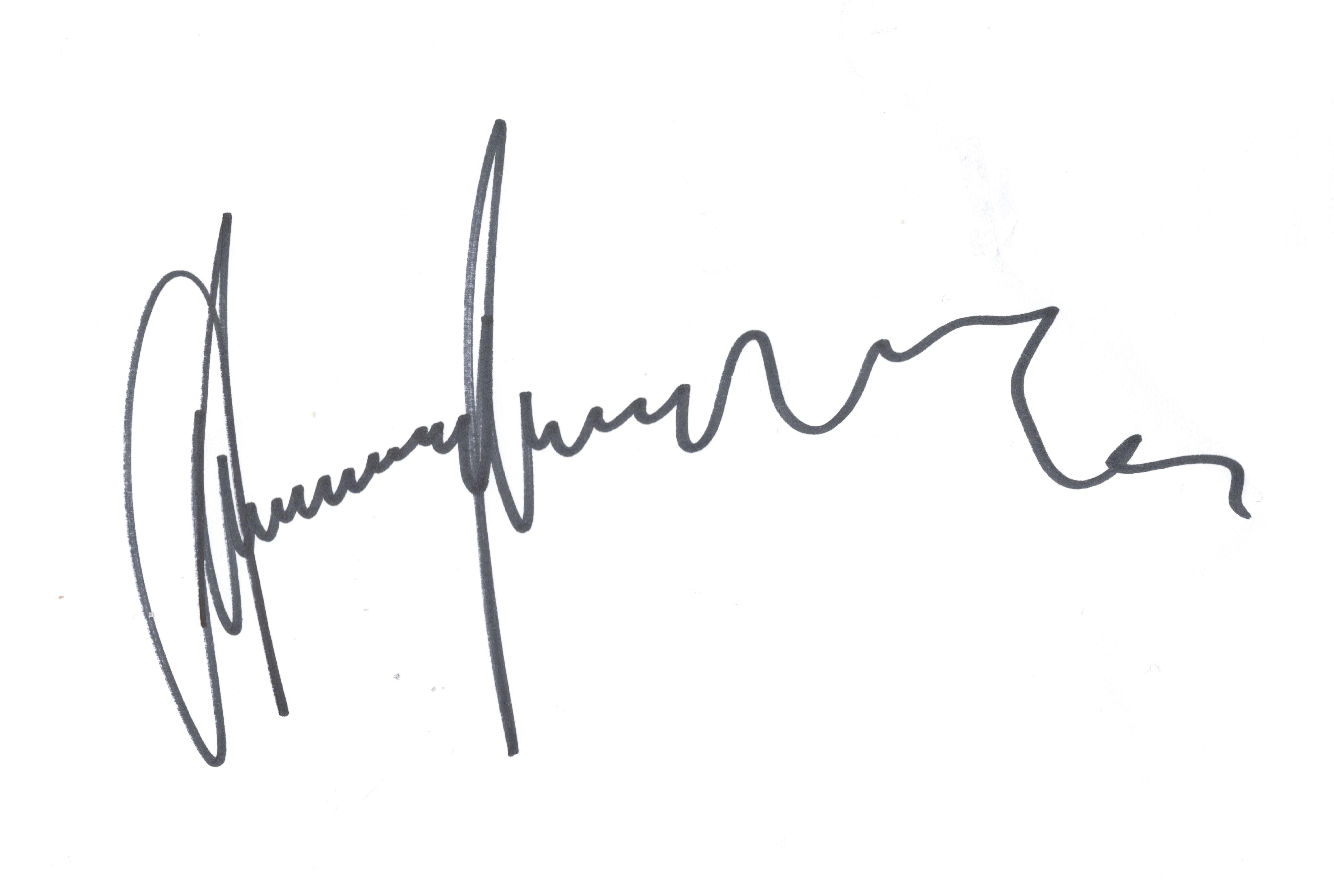 Signature of Tirana-based contemporary artist Armando Lulaj